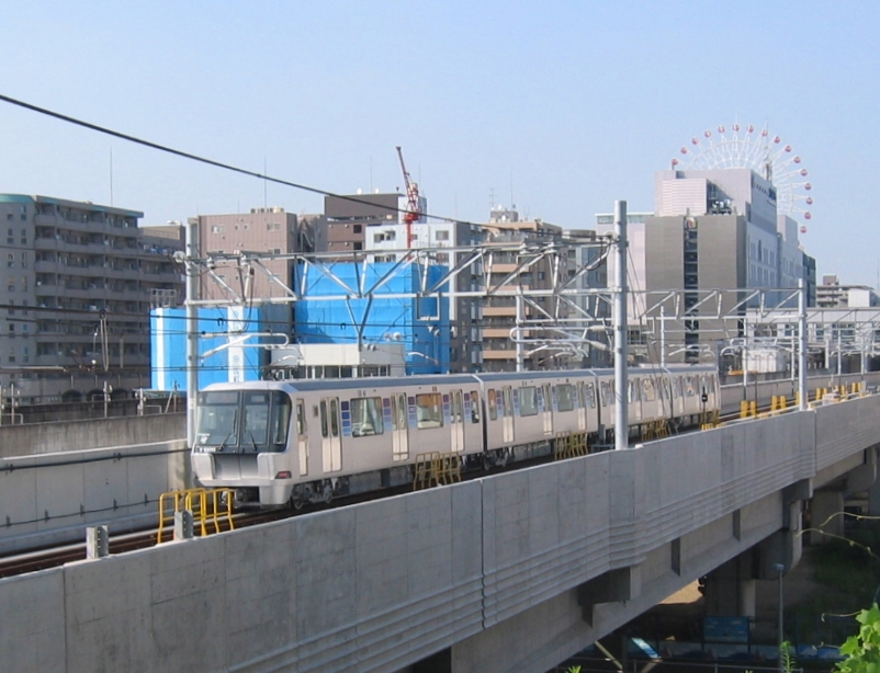 Yokohama Subway Green Line (Test run)